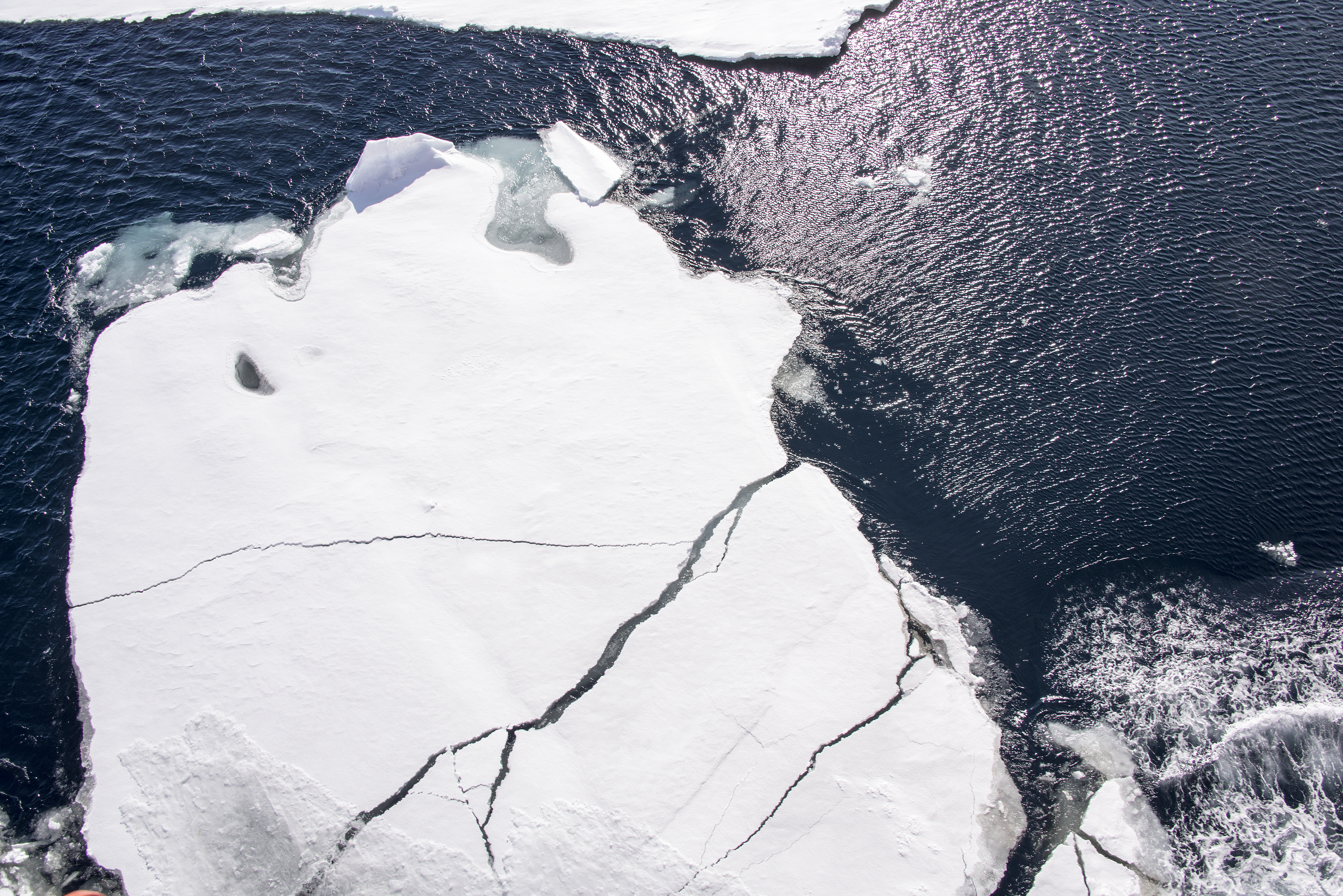 NORTH POLE North Pole Keep